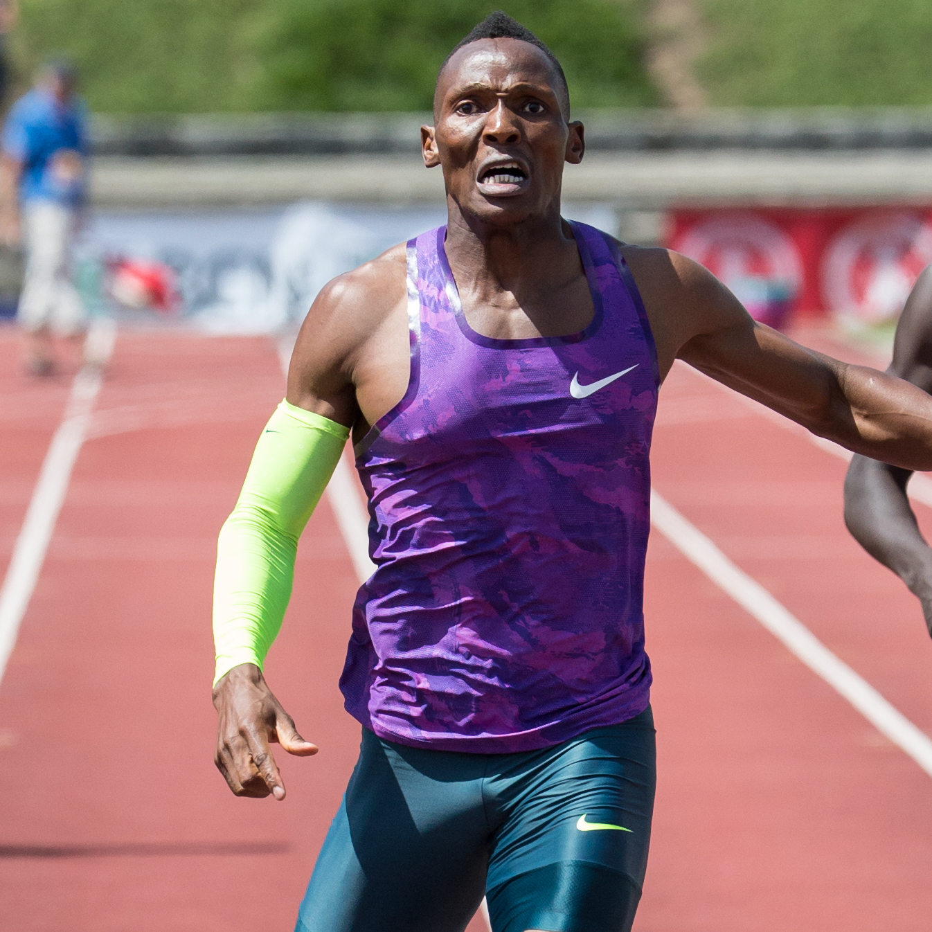 Isaac Makwala - 5 July 2015